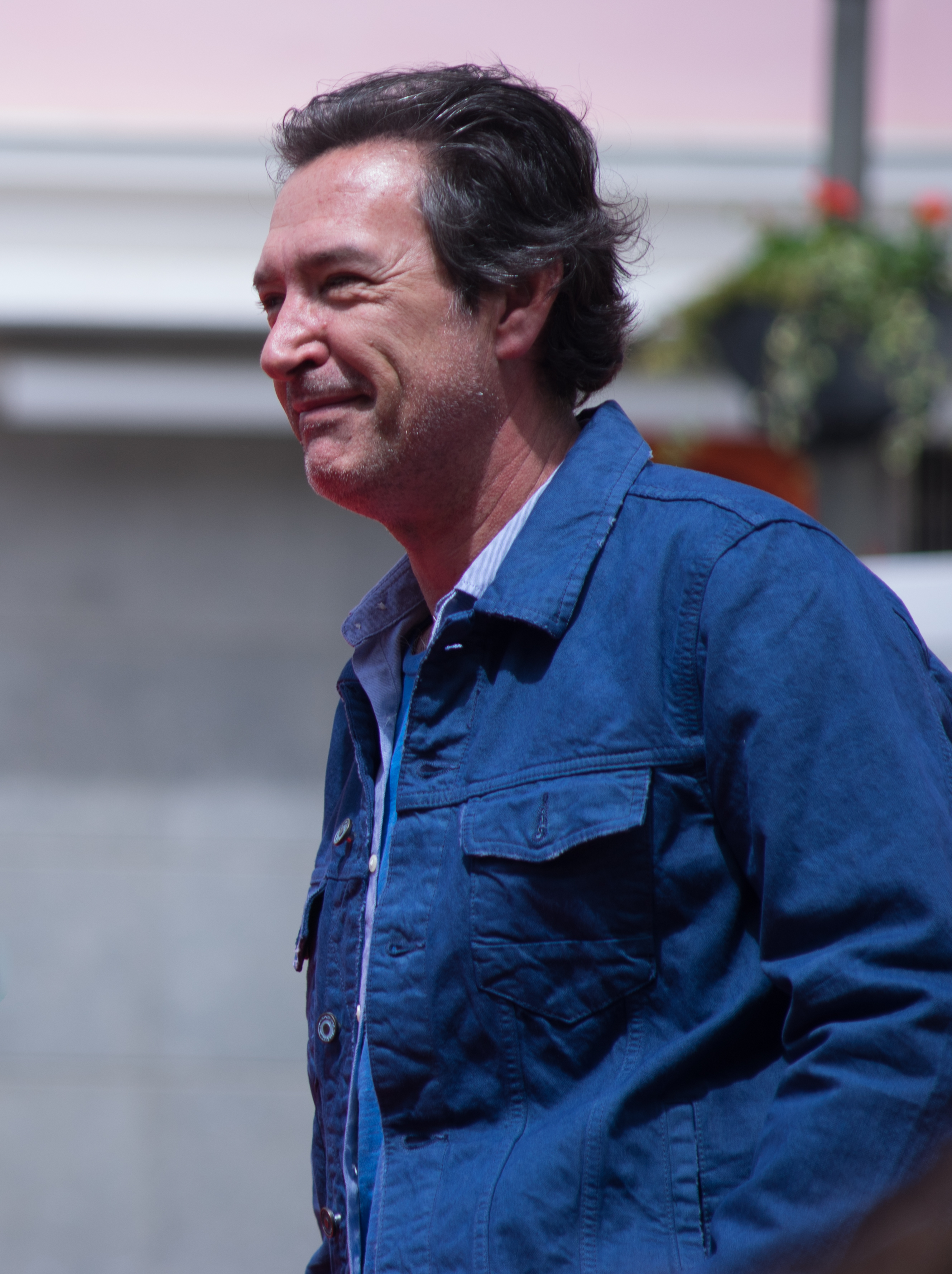 Gines Garcia Millan. Spanish Actor, in the Festival de Cine de Málaga 2016